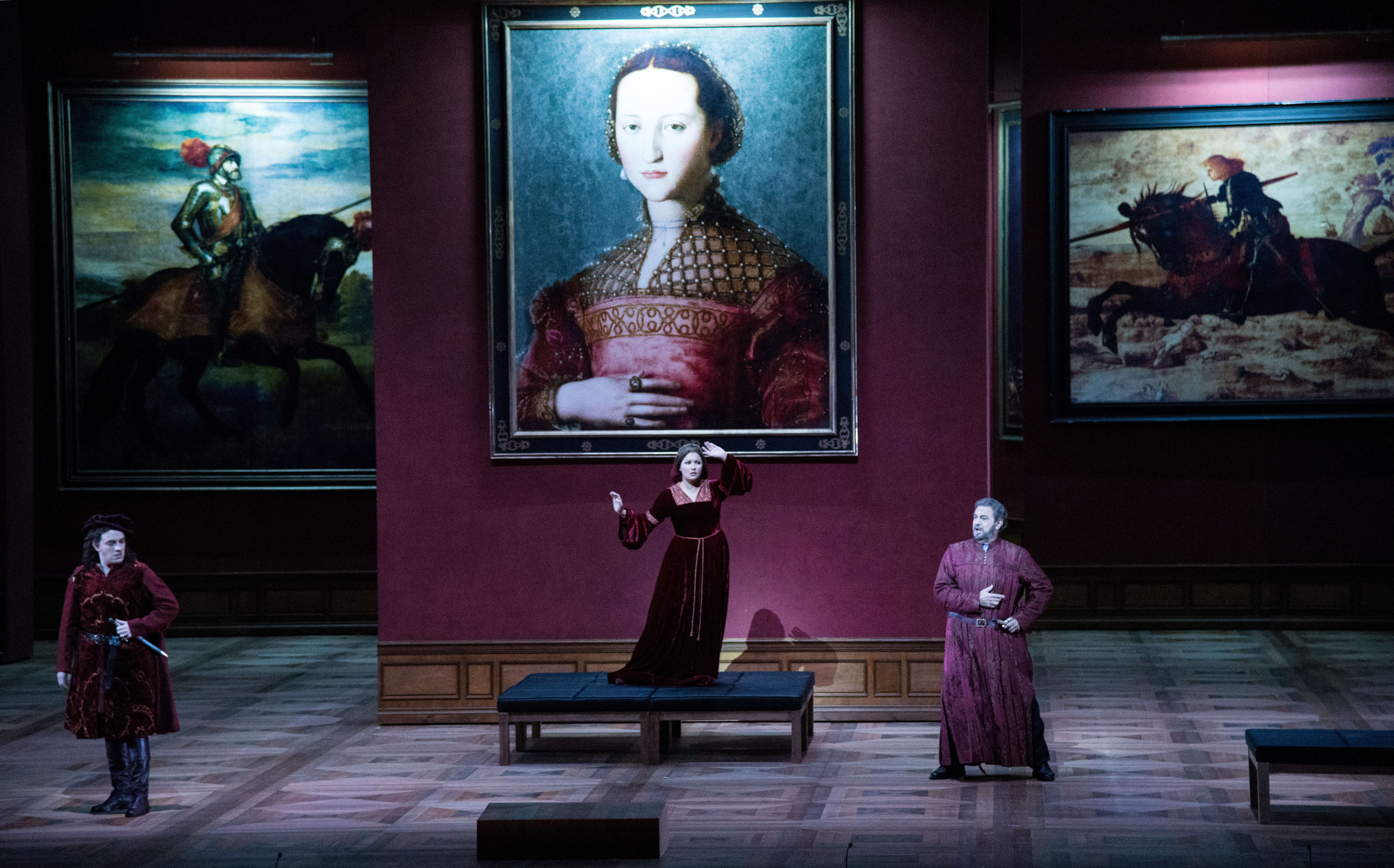 Il trovatore, Francesco Meli, Anna Netrebko and Plácido Domingo, direction and stage design: Alvis Hermanis, Salzburg Festival 2014